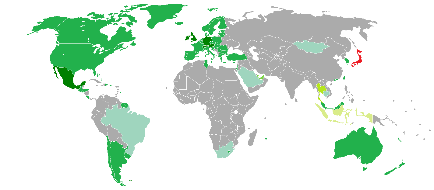 Visa policy of Japan Japan Visa-free - up to 6 months Visa-free - 90 days Visa-free - 30 days (registered passports only) Visa-free - 15 days Visa-free - 15 days (registered passports only) Visa required